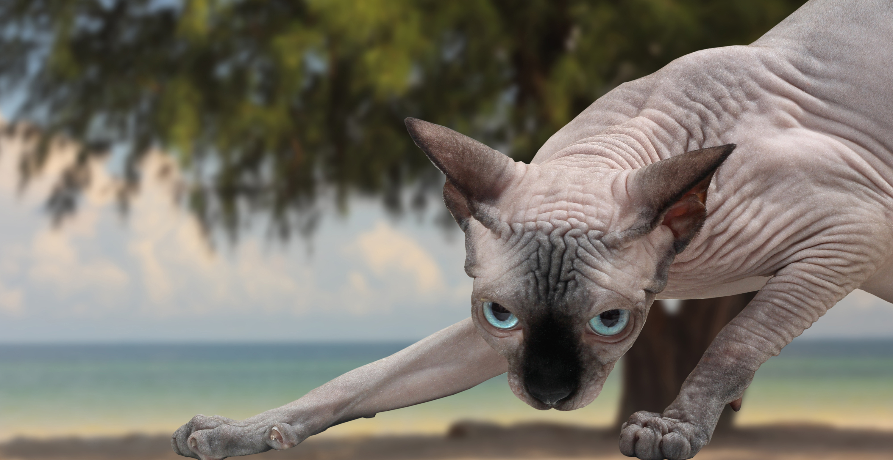 Cat - blue eyes